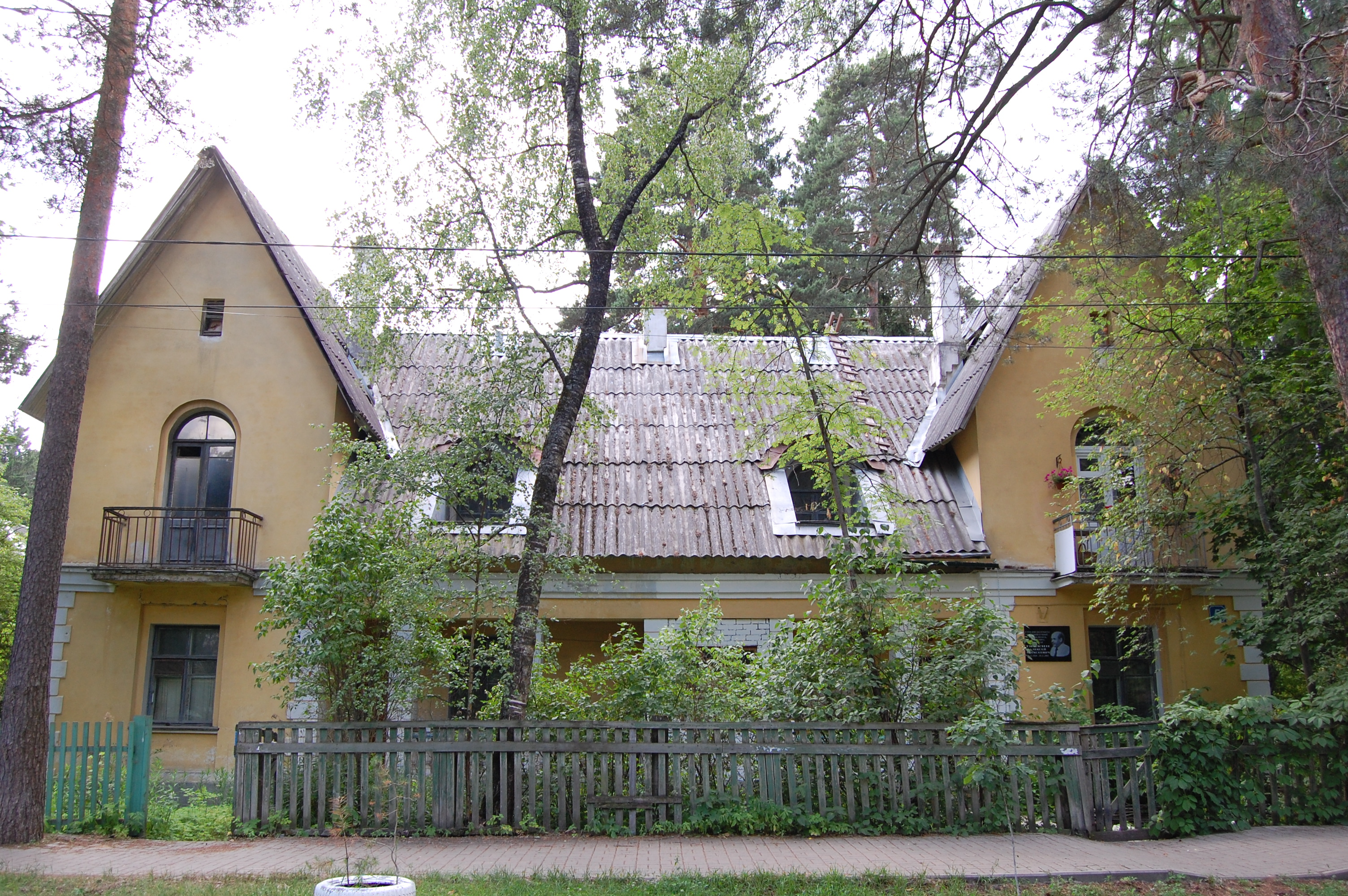 Dubna of Moscow oblast. Internatsionalnaya ulitsa. The house where the physicist Alexey Tyapkin lived.